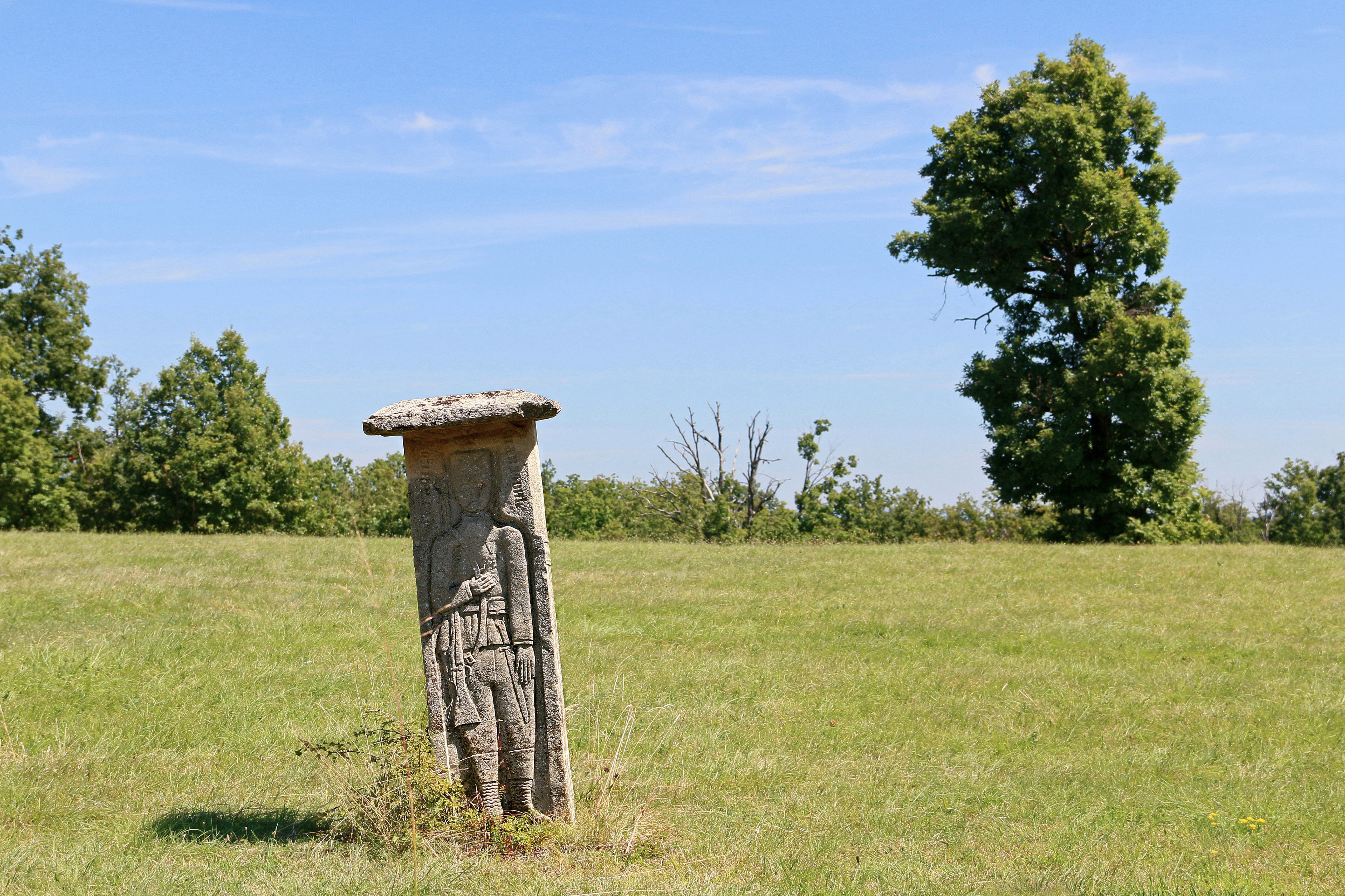 Roadside tombstone erected in memory of Janko Pavlovic in the village of Bogdanica (municipality of Gornji Milanovac), Serbia.